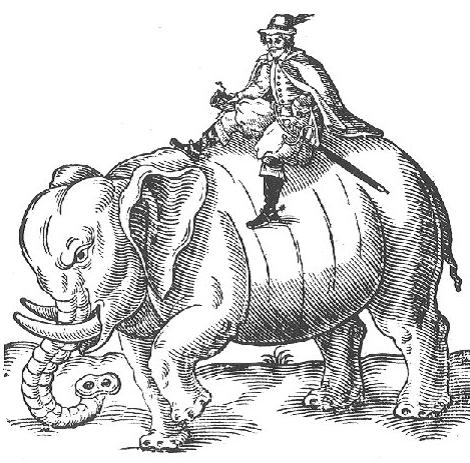 title illustration from Coriate's book, "Thomas Coriate Traueller for the English Wits" (London: W. Iaggard and Henry Fetherston, 1616)